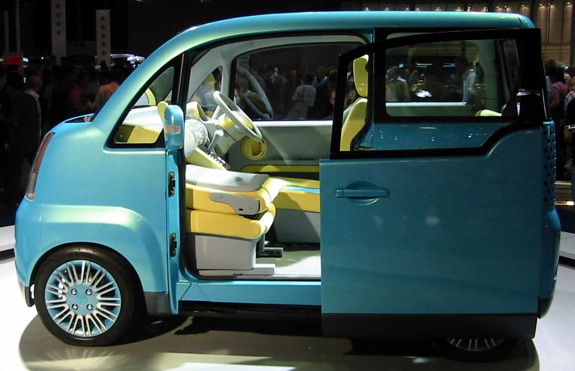 Daihatsu ai (Concept)